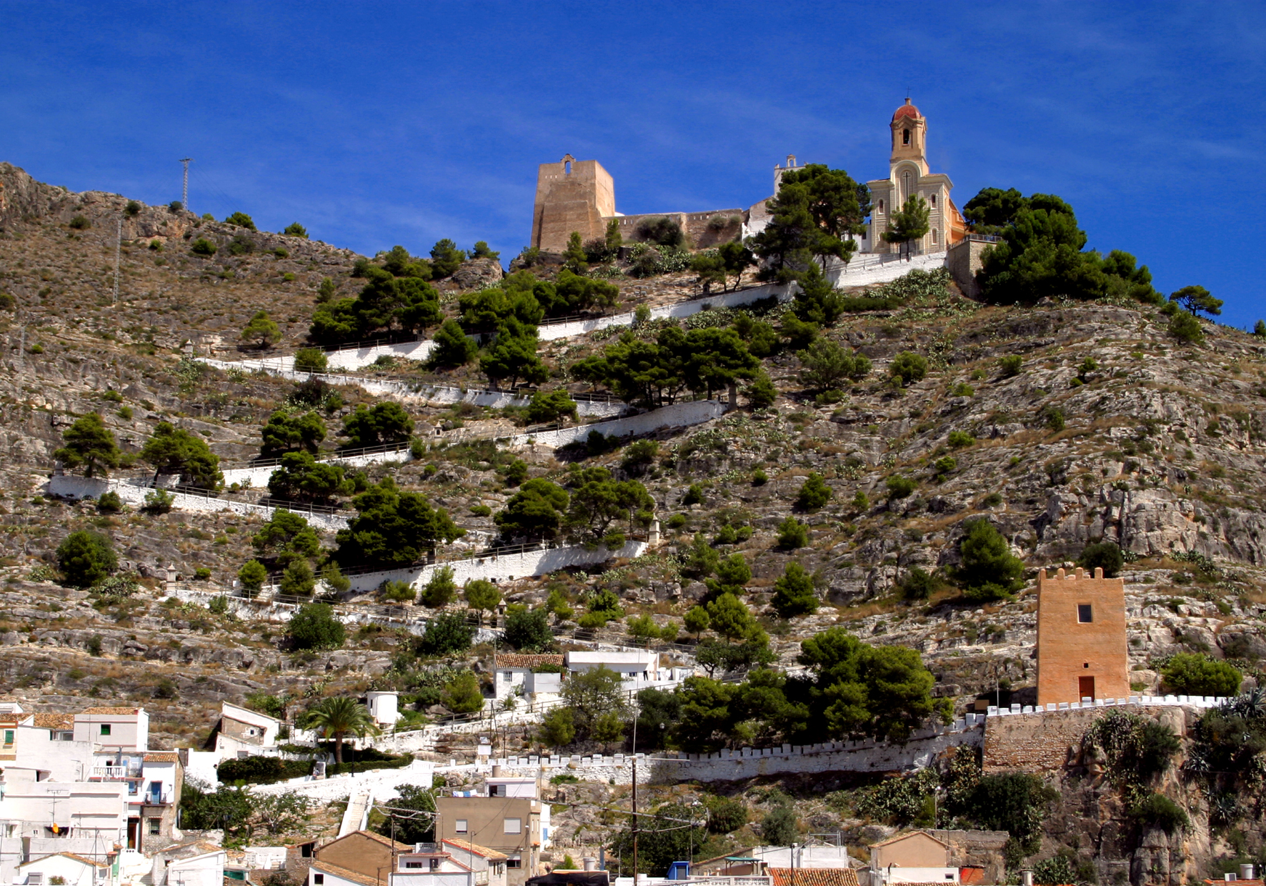 The Castle of Cullera and Camino del Calvario (the way of the cross)